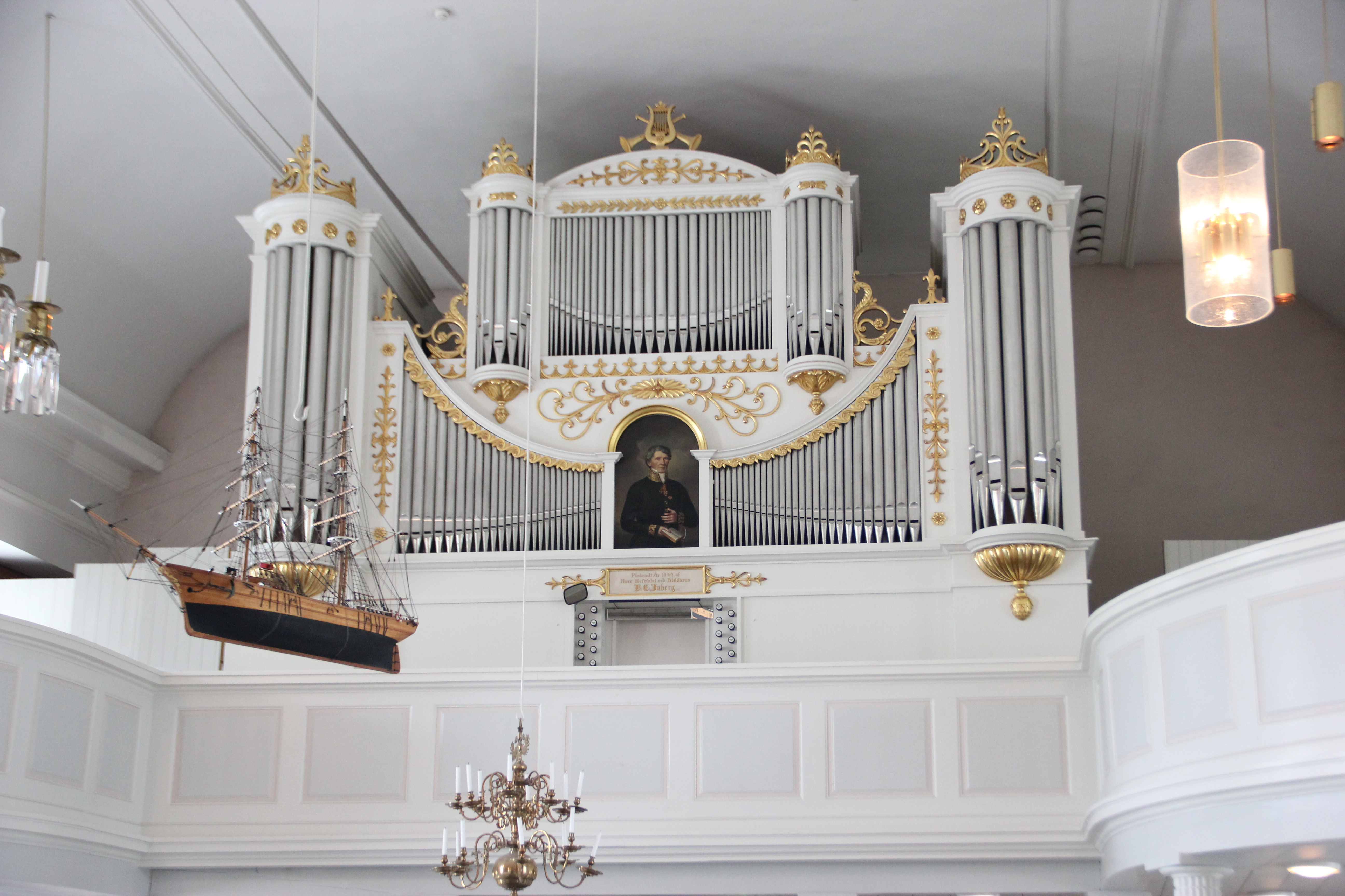 Organ by Kangasalan urkutehdas, in Ekenäs church, Ekenäs, Finland